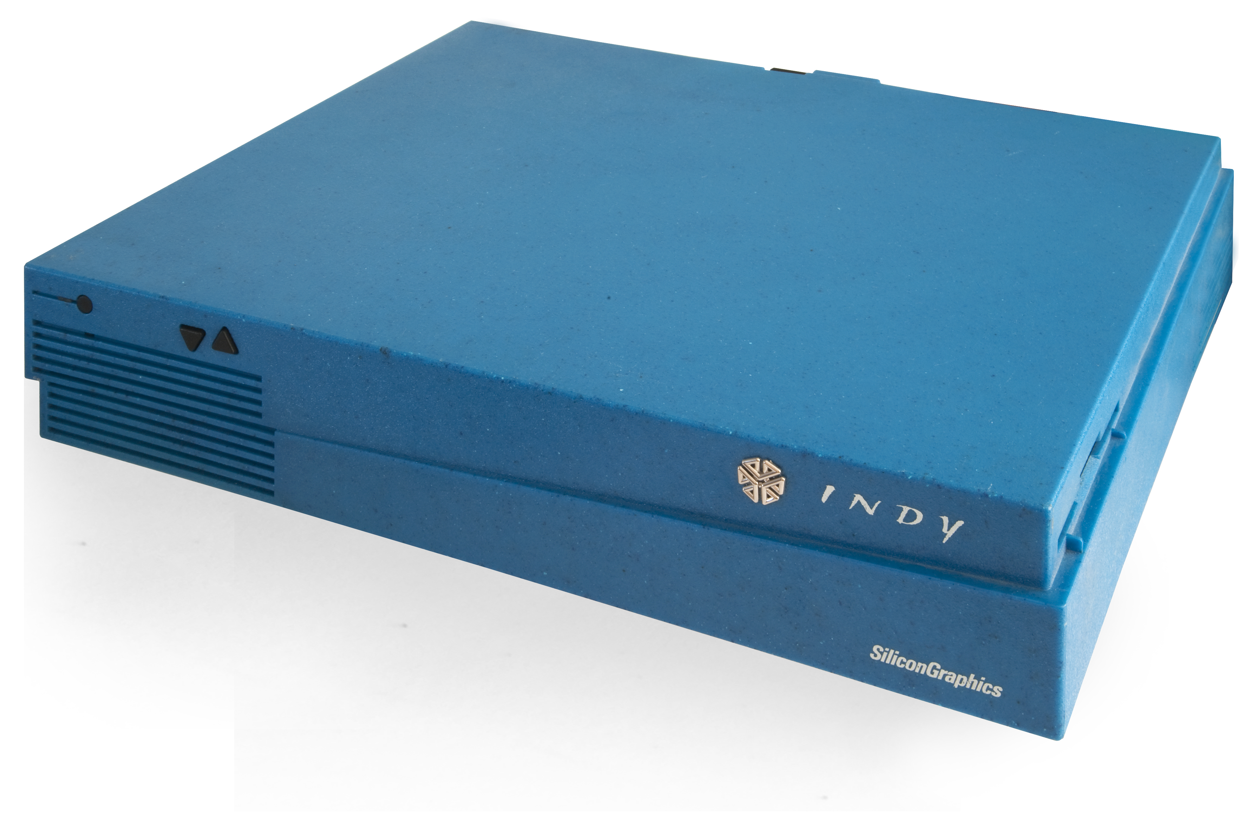 Silicon Graphics Incorporated "Indy" computer. University of South Australia collection.